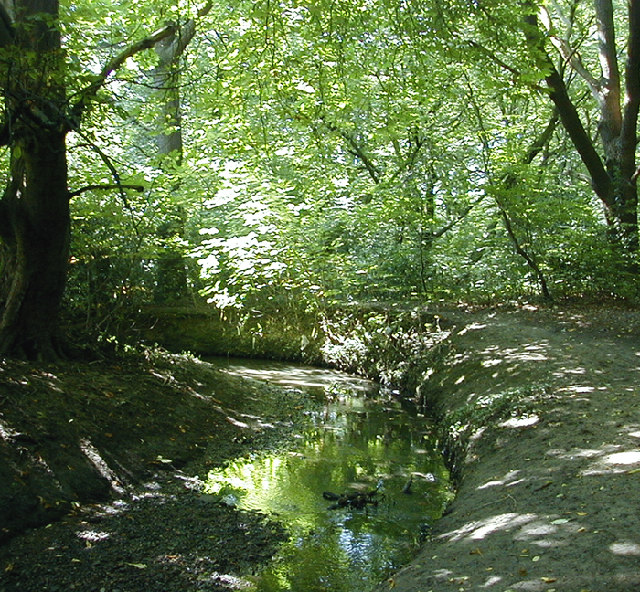 The River Ching. The geomorphological formation of the meanders and formation of the ox bow lakes are studied by geologists due to their constant changing